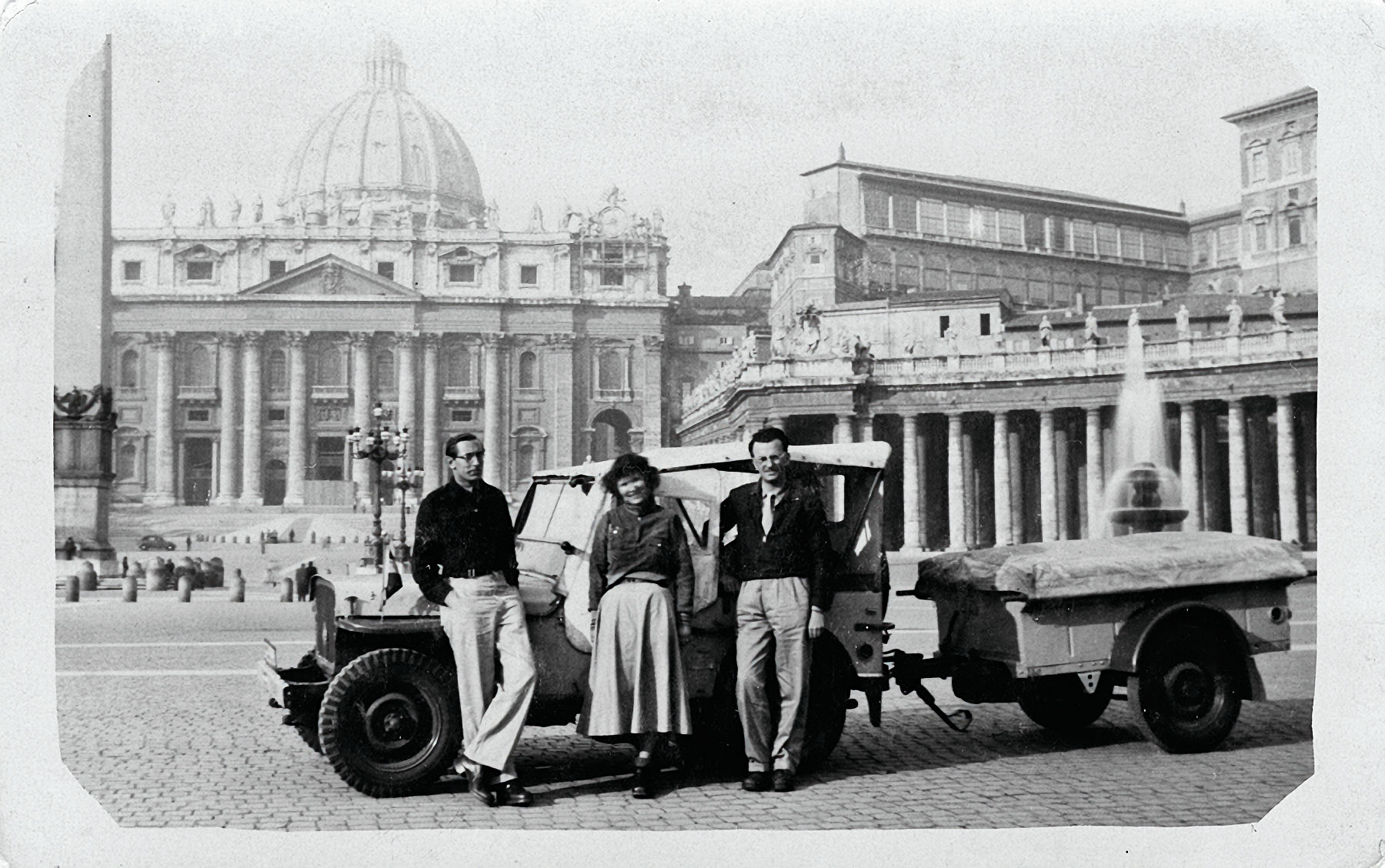 Prix de Rome reis van A.C. Nicolaï met Cora Nicolaï en J. Schipper, 1948-49. Fotograaf onbekend. Collectie NAi / NICO f89 A.C. Nicolaï’s Prix de Rome trip with Cora Nicolaï and J. Schipper, 1948-49. Photographer unknown. NAI Collection / NICO f89 For more images